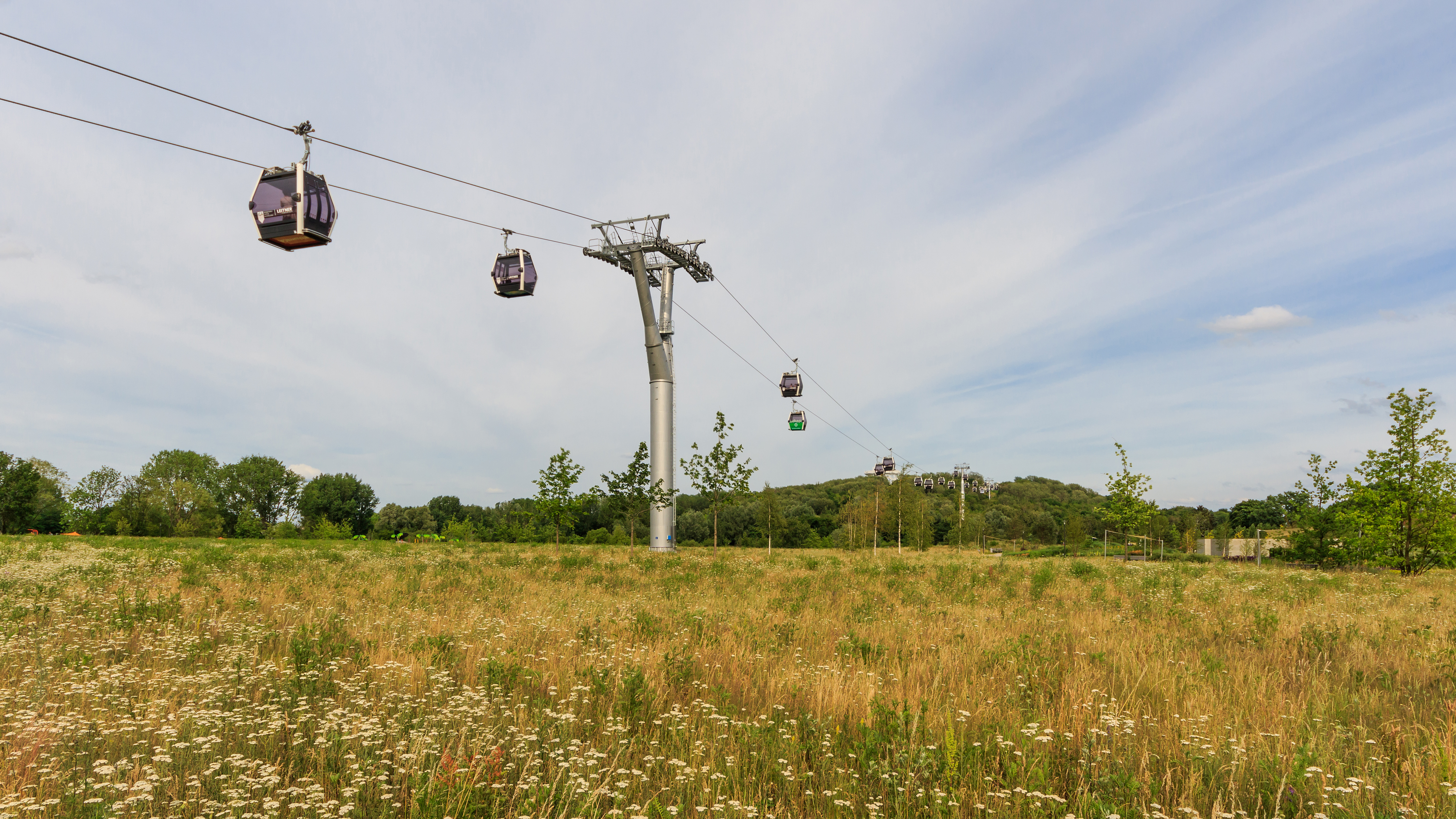 Kienberg Marzahn and surroundings (IGA 2017 area) in Berlin (Germany)